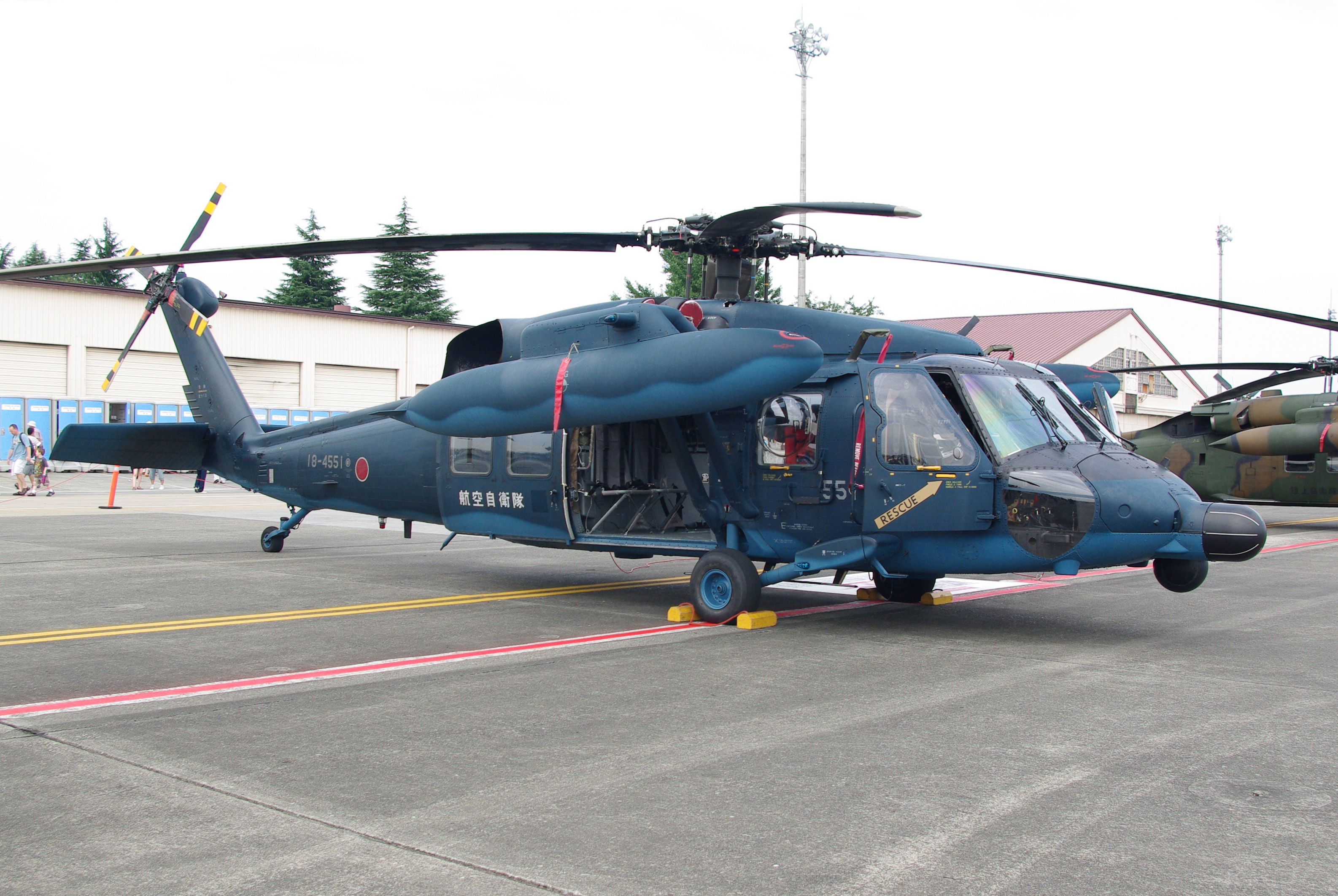 JASDF UH-60J helicopter.At USAF Yokota AFB,Japan.Taken by Los688,22-Aug-2009.PD-self. Ja:航空自衛隊UH-60Jヘリコプター。機体番号18-4551 百里救難隊。2009年8月22日、横田基地にて撮影。